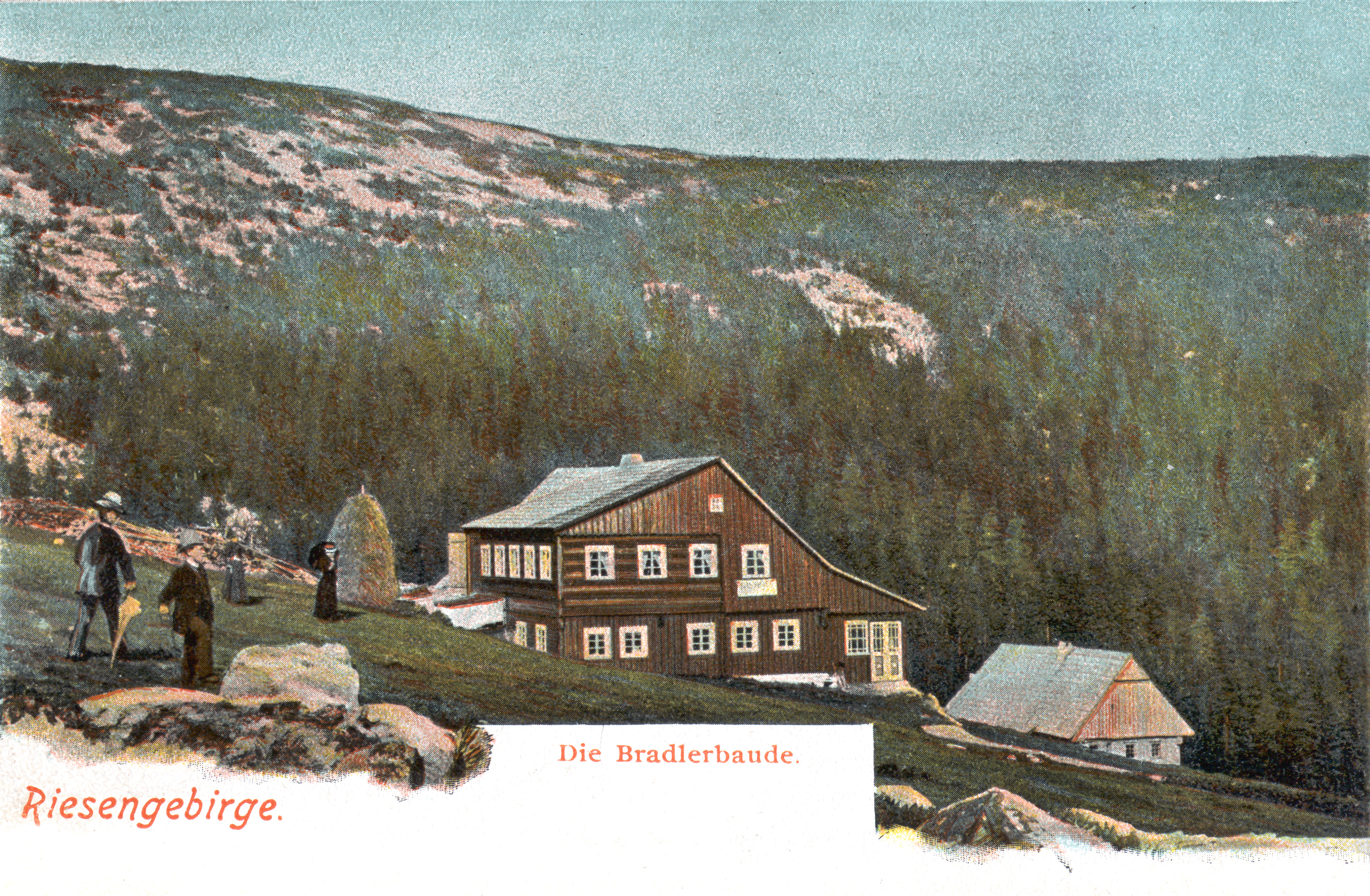 Brádlerovy boudy, Bohemia, now Czech Republic.